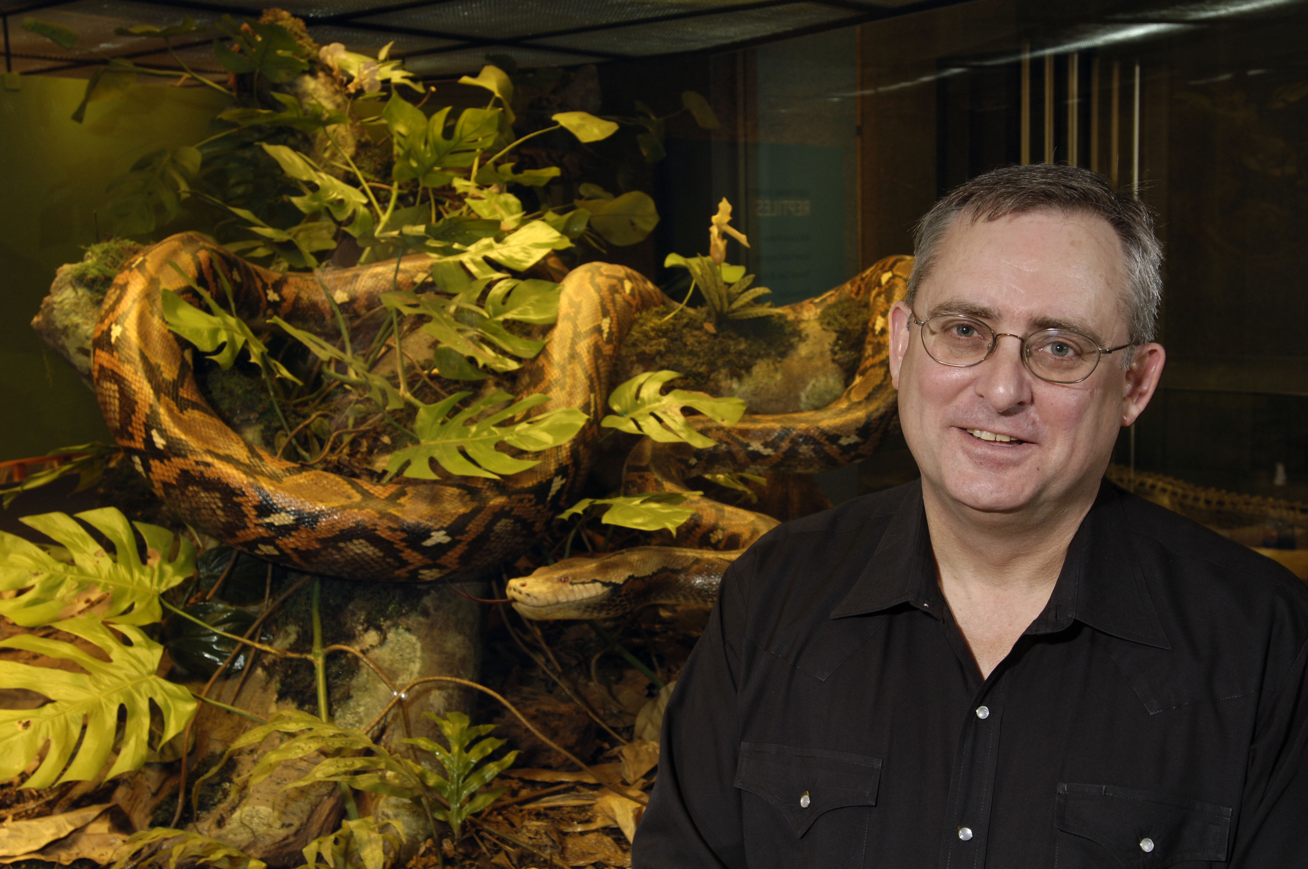 Darrel R. Frost next to model of a reticulated python in the Hall of Reptiles and Amphibians at the American Museum of Natural History